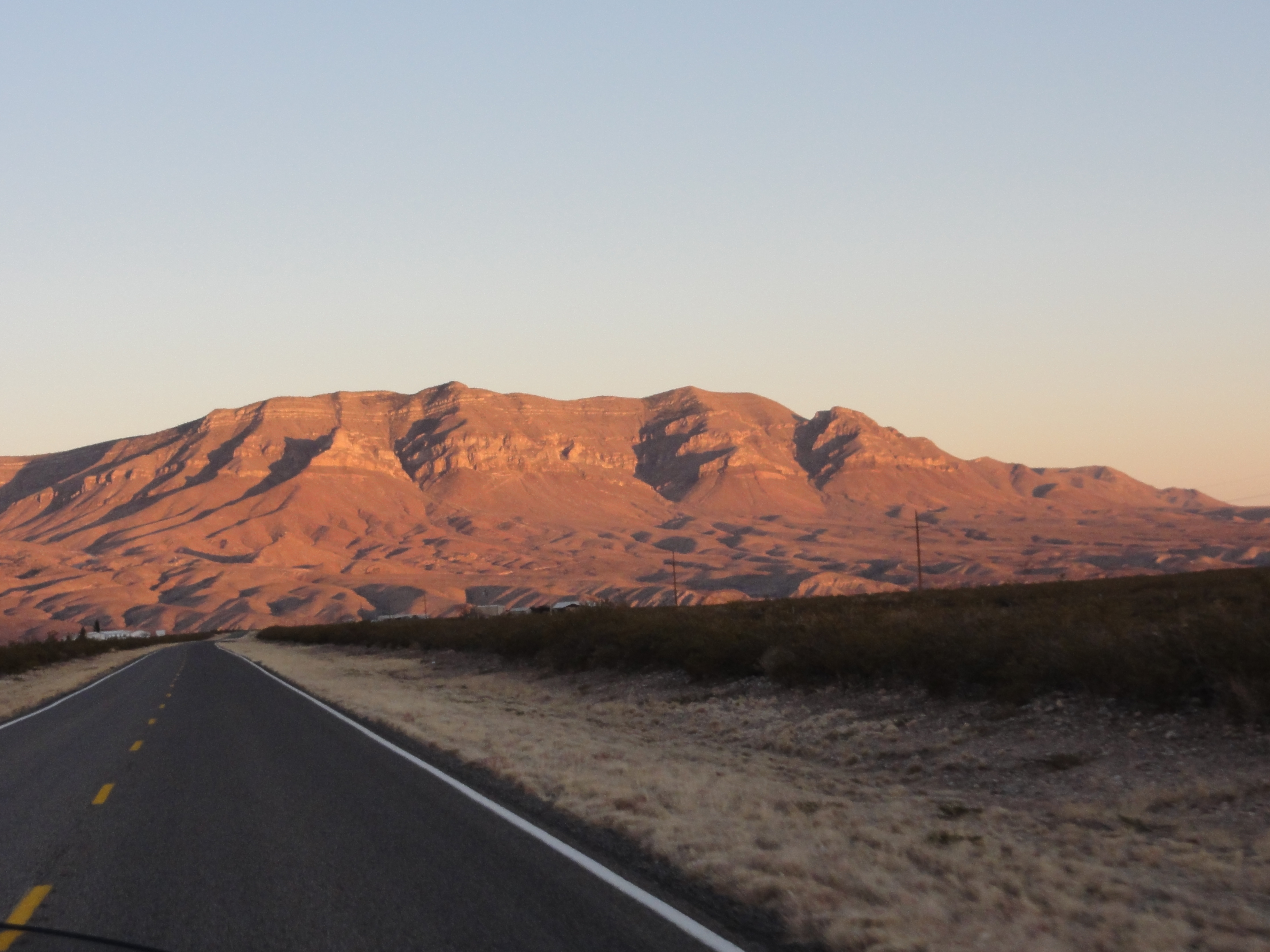 New Mexico State Road 152 eastbound slightly east of Interstate 25